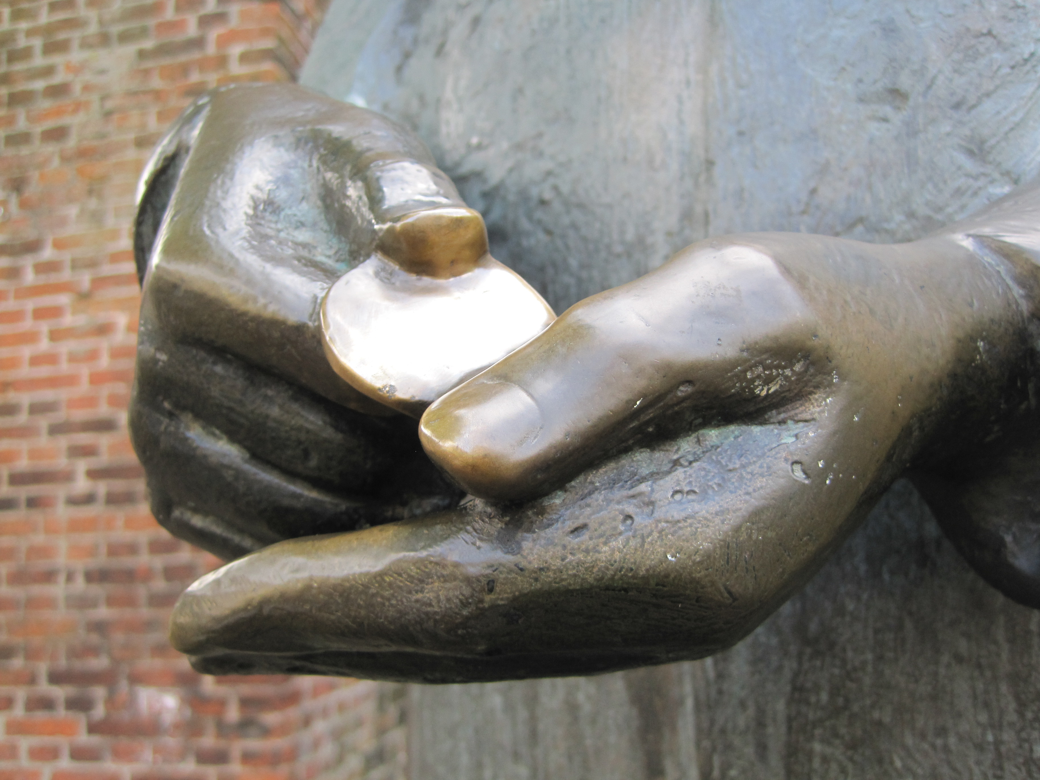 Detail of Ulenköper sculpture (coin), Uelzen, Germany check usage